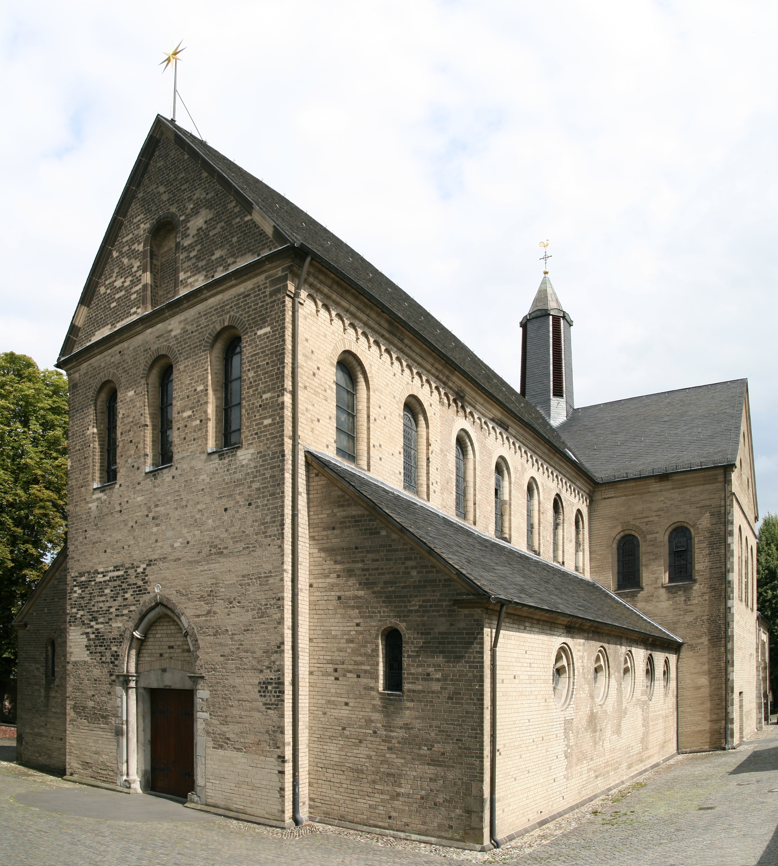 St Suitbertus church in Kaiserswerth/Düsseldorf, Germany. View from SW.